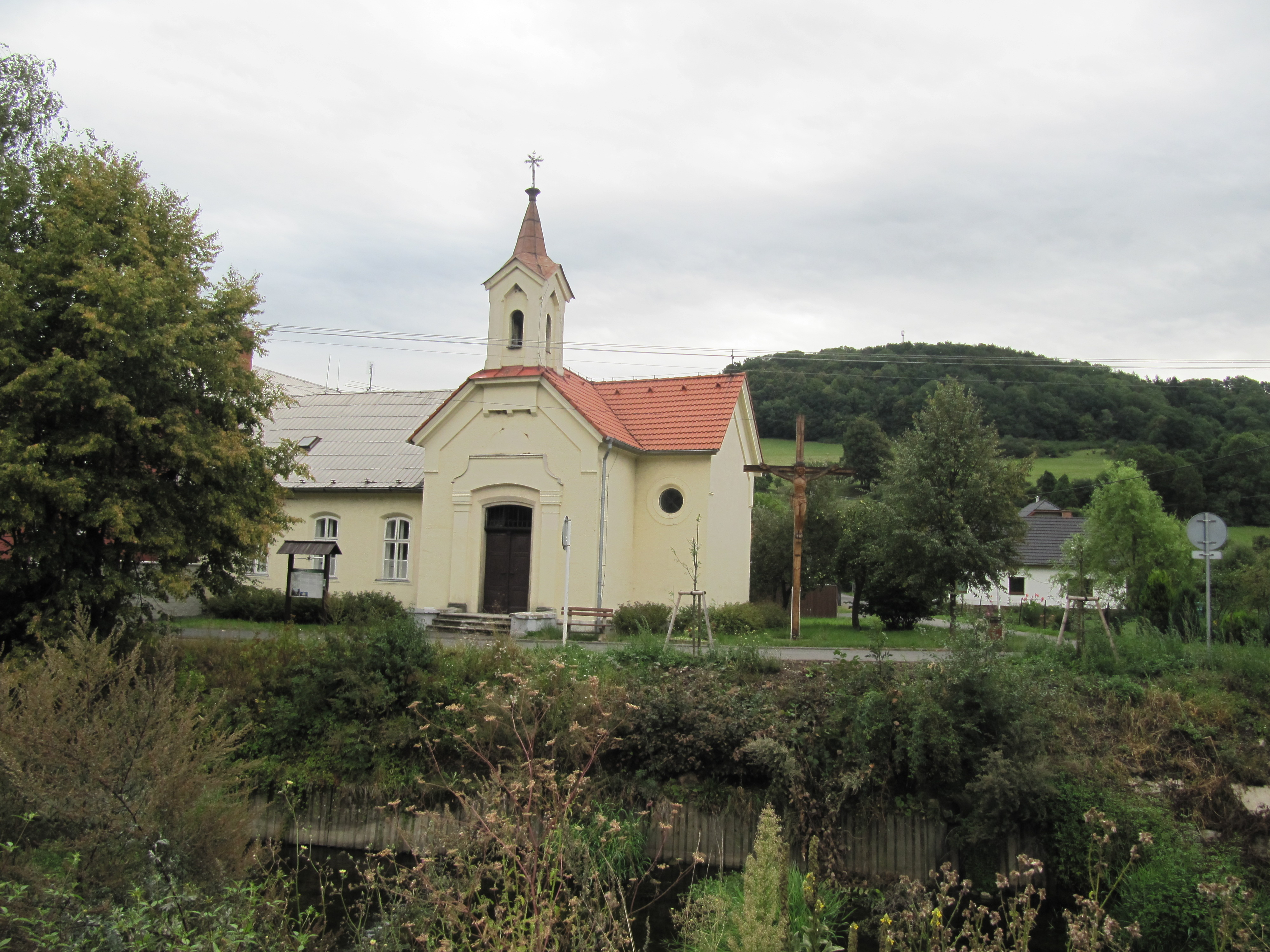 Nový Jičín, Czech Republic, part Bludovice.